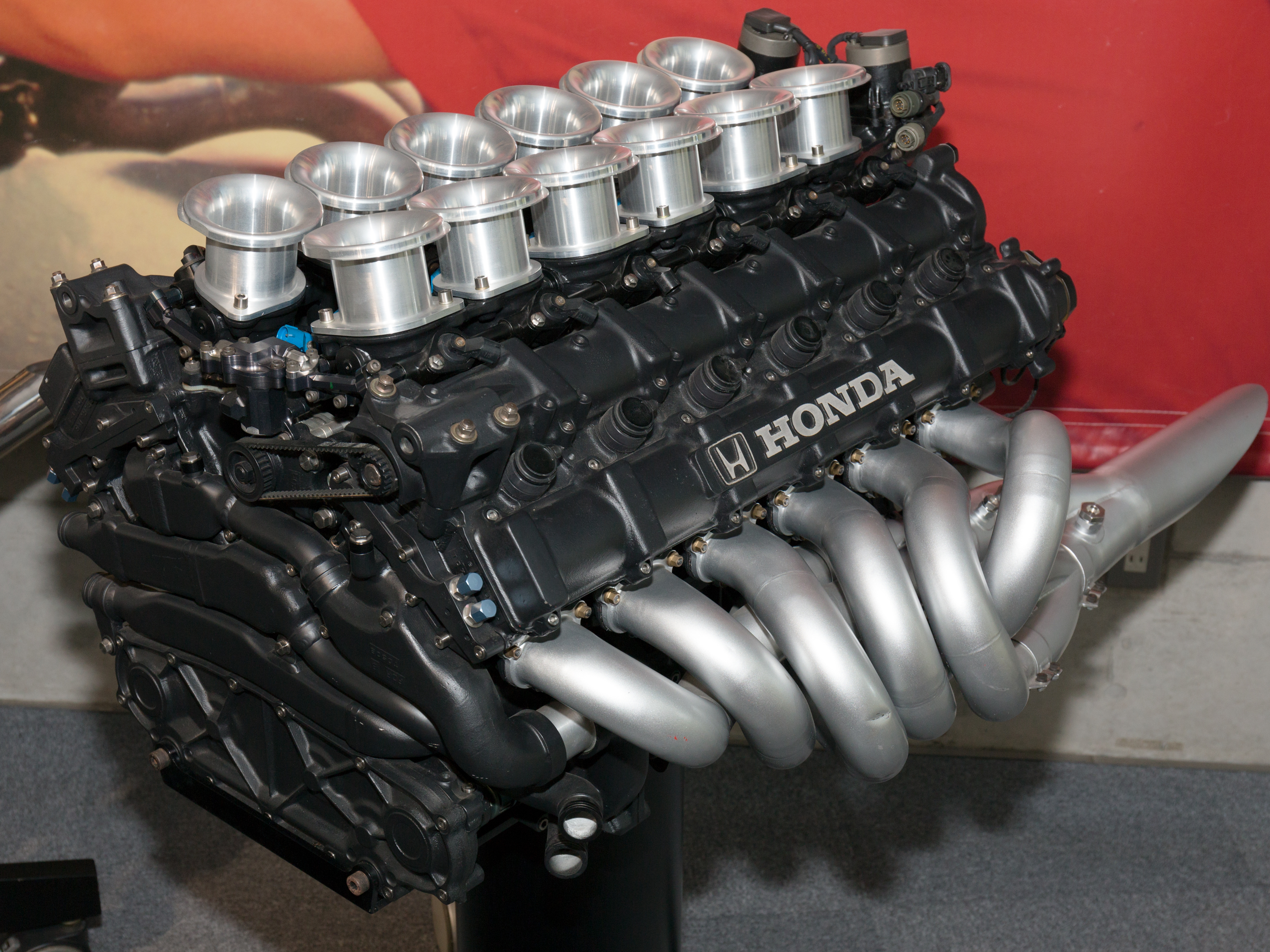 1992 Honda RA122E engine